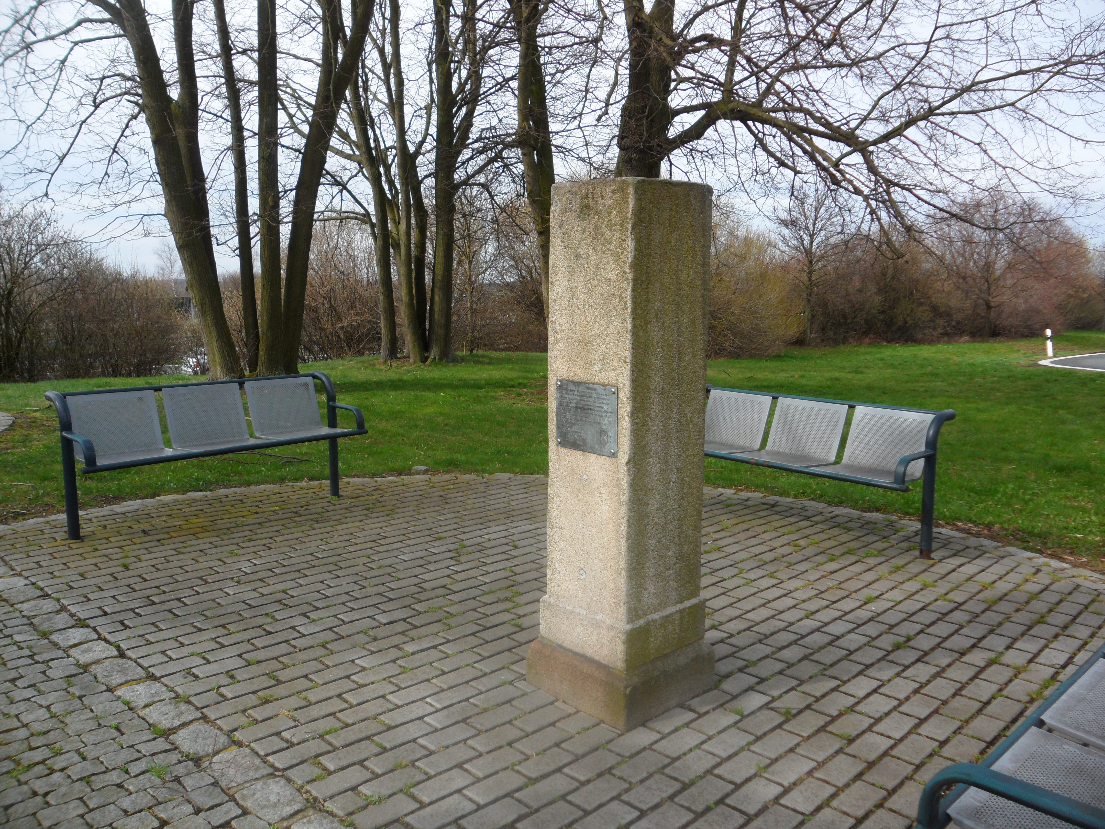 Lengenfeld:Triangulation stone on the parking area Waldkirchen Chemnitz-Hof at the A72